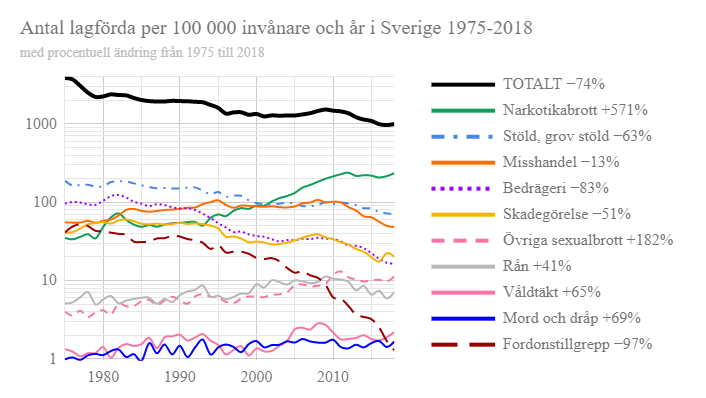 Relative number of prosecuted per 100,000 population and year in Sweden, 1975-2018, totally and for some types of main crimes (in Swedish). The increase in percent since 1975 of the relative numbers are indicated in the legend. Logarithmic vertical axis. The legend is in descending order based on the prosecution frequency in 2018. Data sources: Lagföringsbeslut efter lagföringstyp fr.o.m. 1975. (prosecution statistics since 1975) from the Swedish National Council for Crime Prevention BRÅ. Medelbefolkning (annual average population of Sweden) from the Central Statistics Bureau SCB.